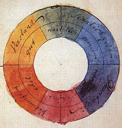 Better version of Goethe-Color-Wheel.jpg, sharpened